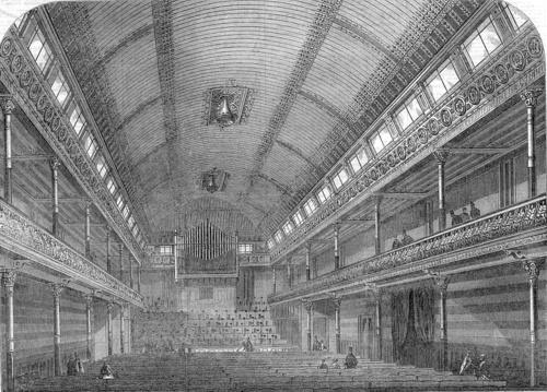 Saint George's Hall, Langham Place. The London Illustrated News, 29 June, 1867. This engraving is out of copyright